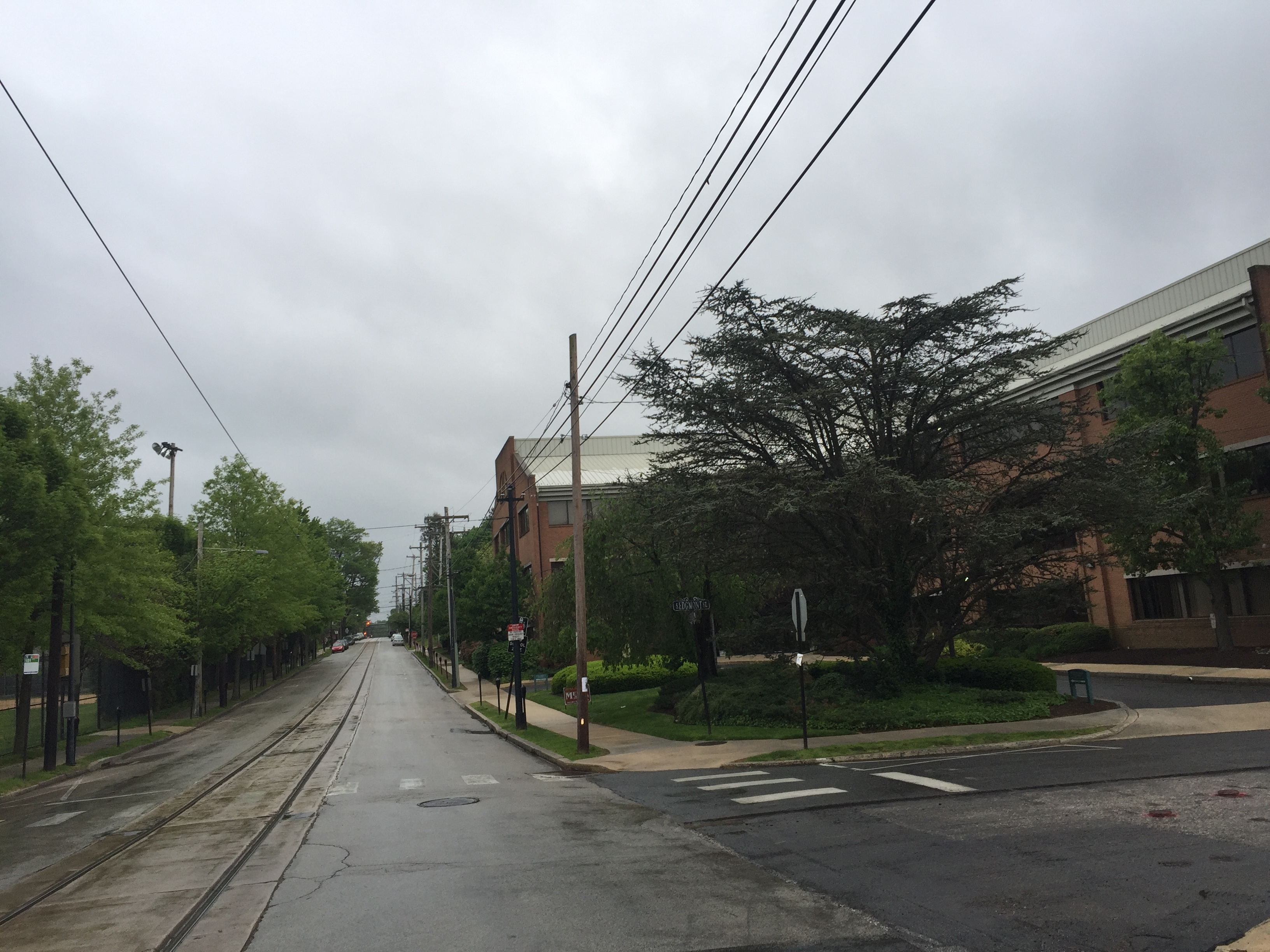 Edgemont Street station